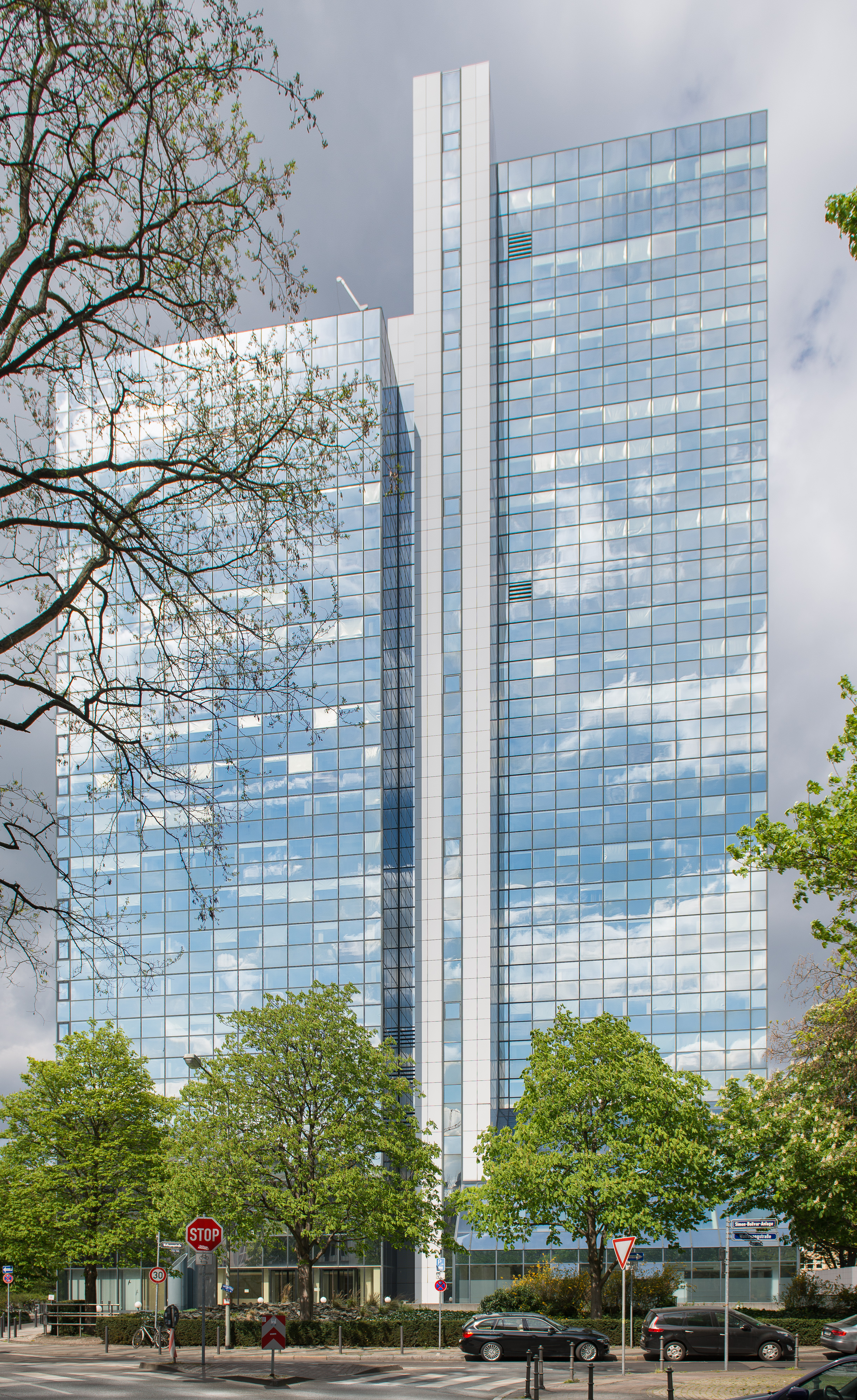 Frankfurt am Main: Office tower Hochhaus am Park at the Grüneburg park, as seen from South (April 2014)